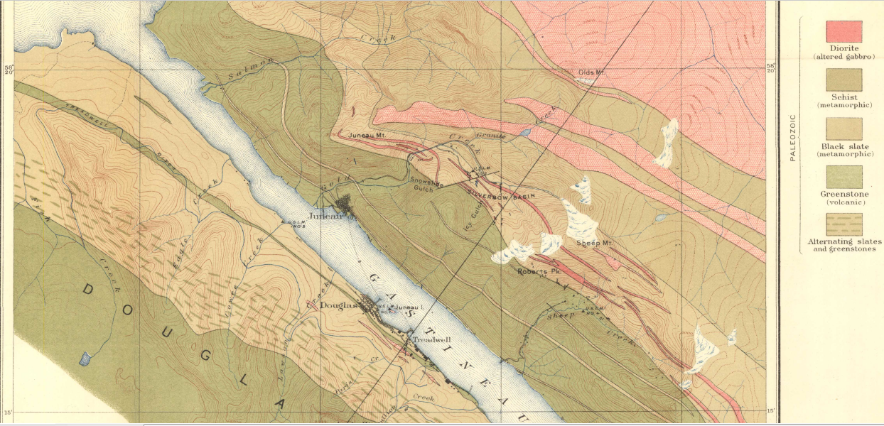 Douglas geologic map